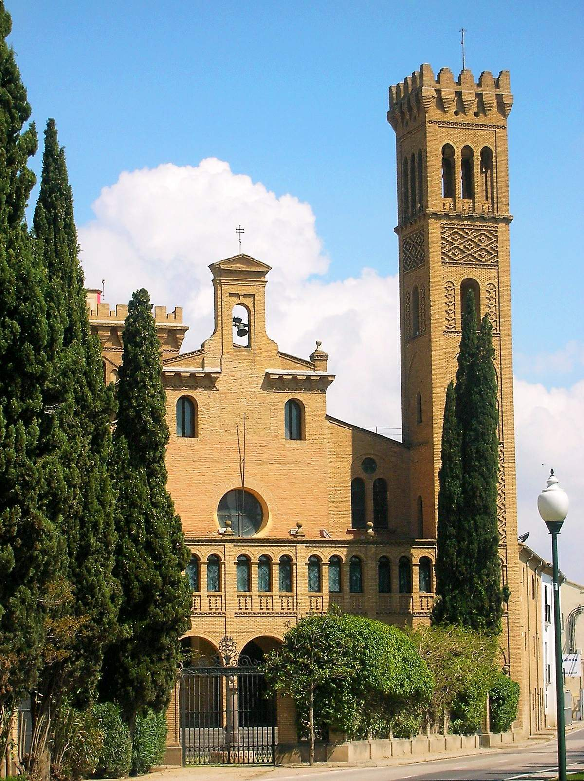 Antiguo Monasterio de Santa María de Cogullada (Zaragoza, hoy, propiedad de Ibercaja)